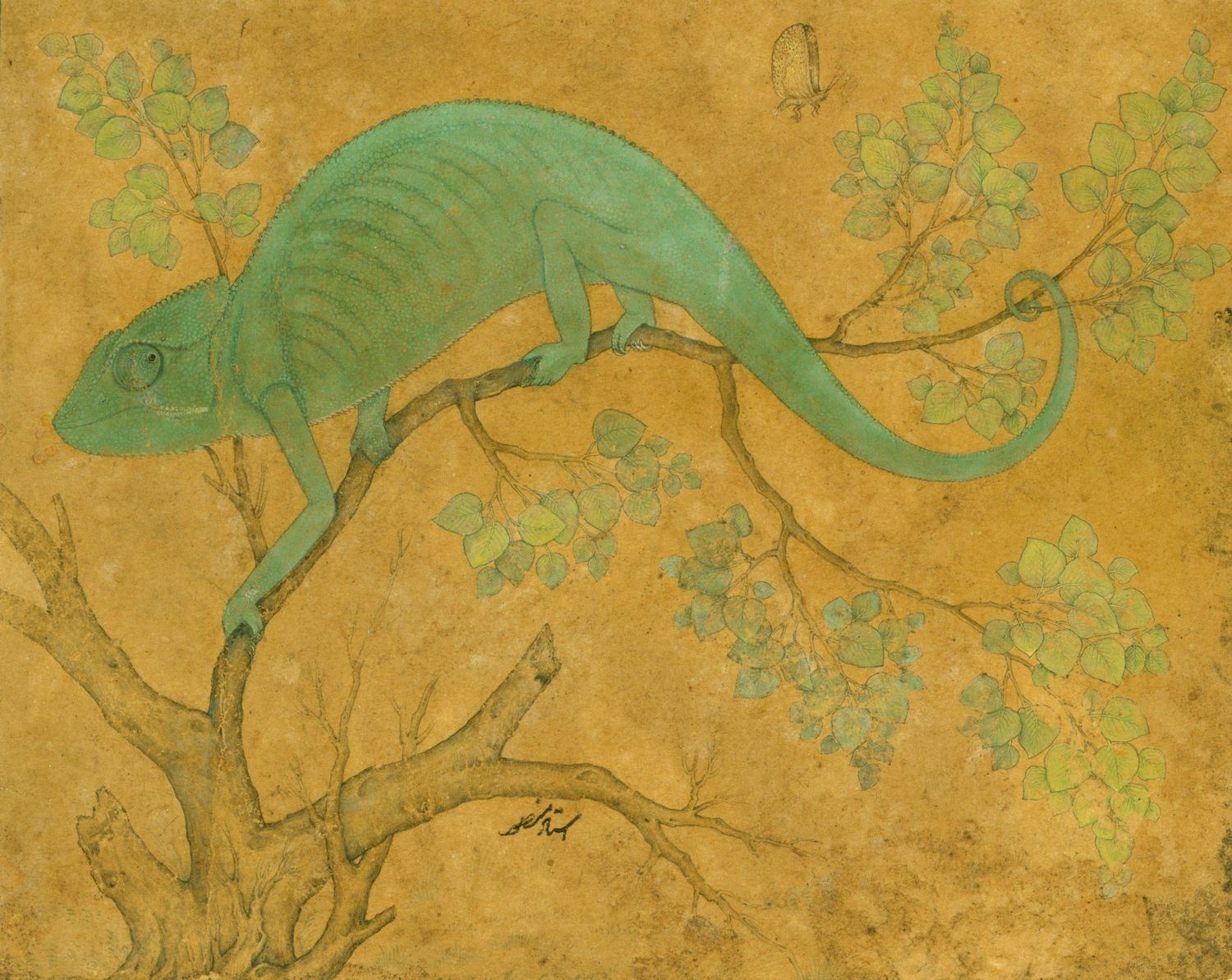 A work by the 17th century Mughal natural artist Ustad Mansur. From the British Royal Collection. Assumed to be a Flap-necked Chameleon or possibly Indian chameleon on account of the highly detailed view showing a the feet of the animal where each foot exhibits fused digits in opposed groups, a lighter band by the edge of the mouth, and a line of white scales on the underside of the belly. [1]